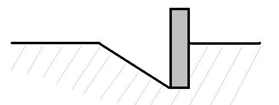 Example of the type of ha-ha walls seen at Kew Asylum